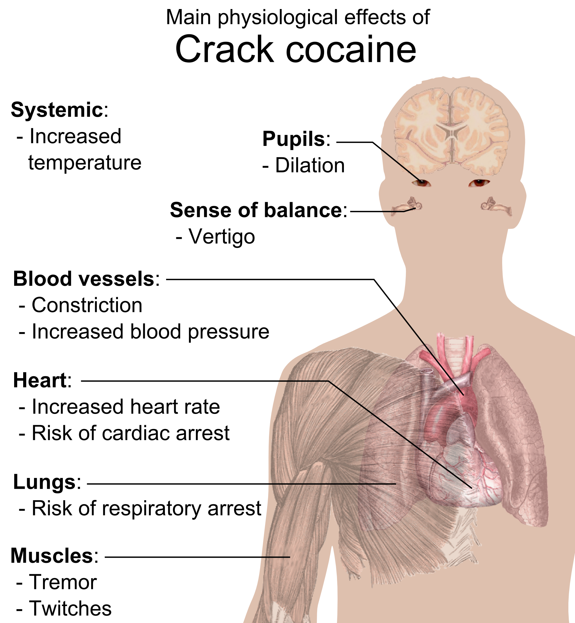 Main physiological effects of Crack cocaine. Sources are found in main article: Wikipedia:Crack_cocaine#Physiological_effects. To discuss image, please see Template talk:Human body diagrams